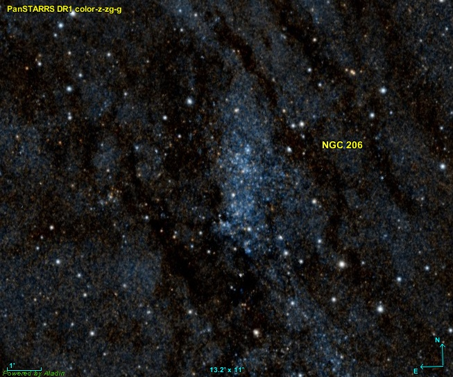 Image created using the Aladin Sky Atlas software from the Strasbourg Astronomical Data Center and Pan-STARRS (Panoramic Survey Telescope And Rapid Response System) public data.